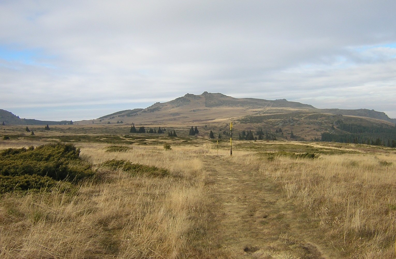 Plateau on top of Vitosha Mountain, Bulgaria, showing the reserve Torfeno Branishte. Taken from near Goli Vruh, towards the north-west, with the peak Ushite (1906 m) at the horizon.